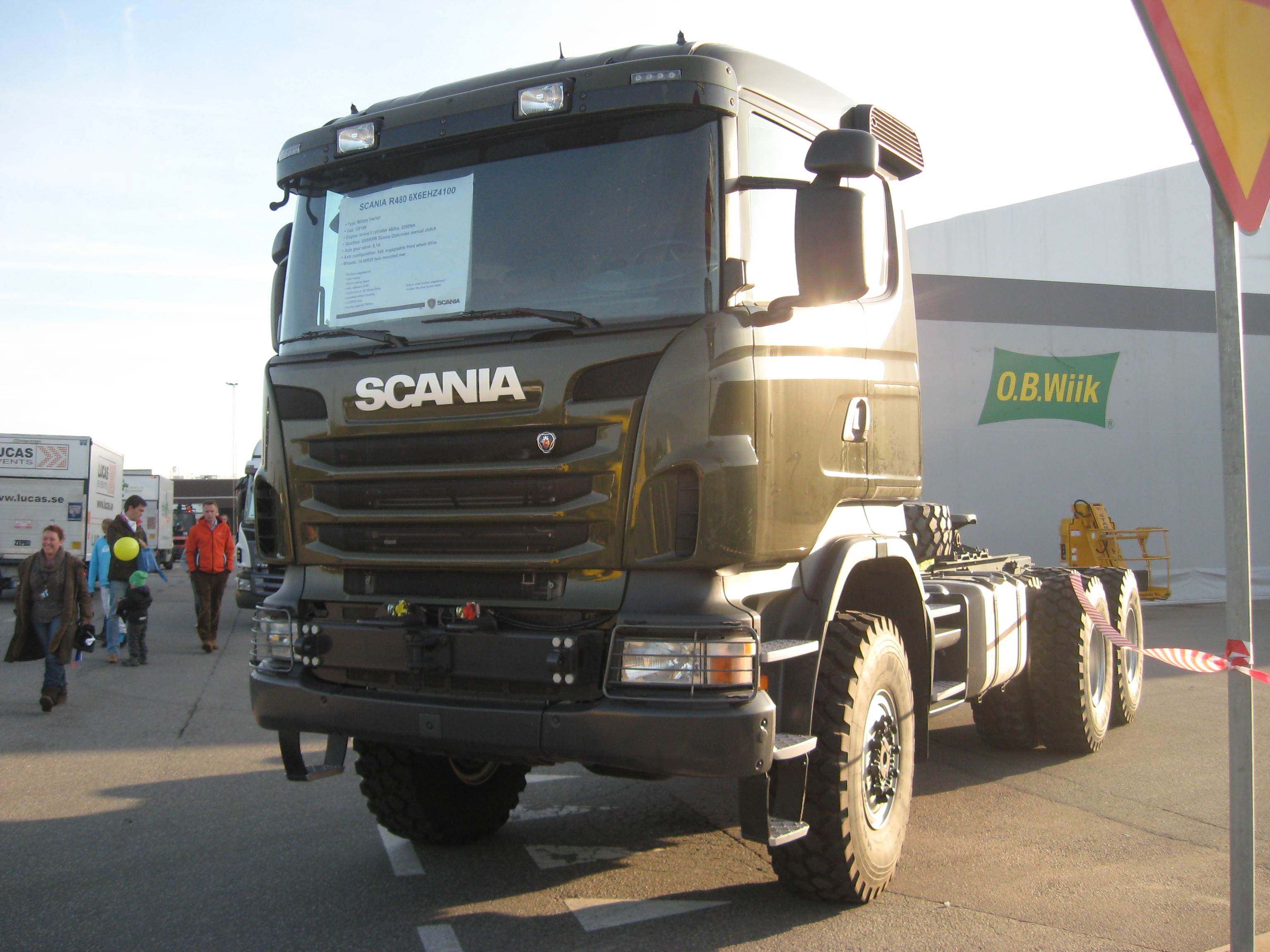 Scania R480 6x6EHZ4100. Military tractor. CR19 cab. In-line 6 cylinder engine. 480 hp, 2250 Nm. GRS905R gearbox.